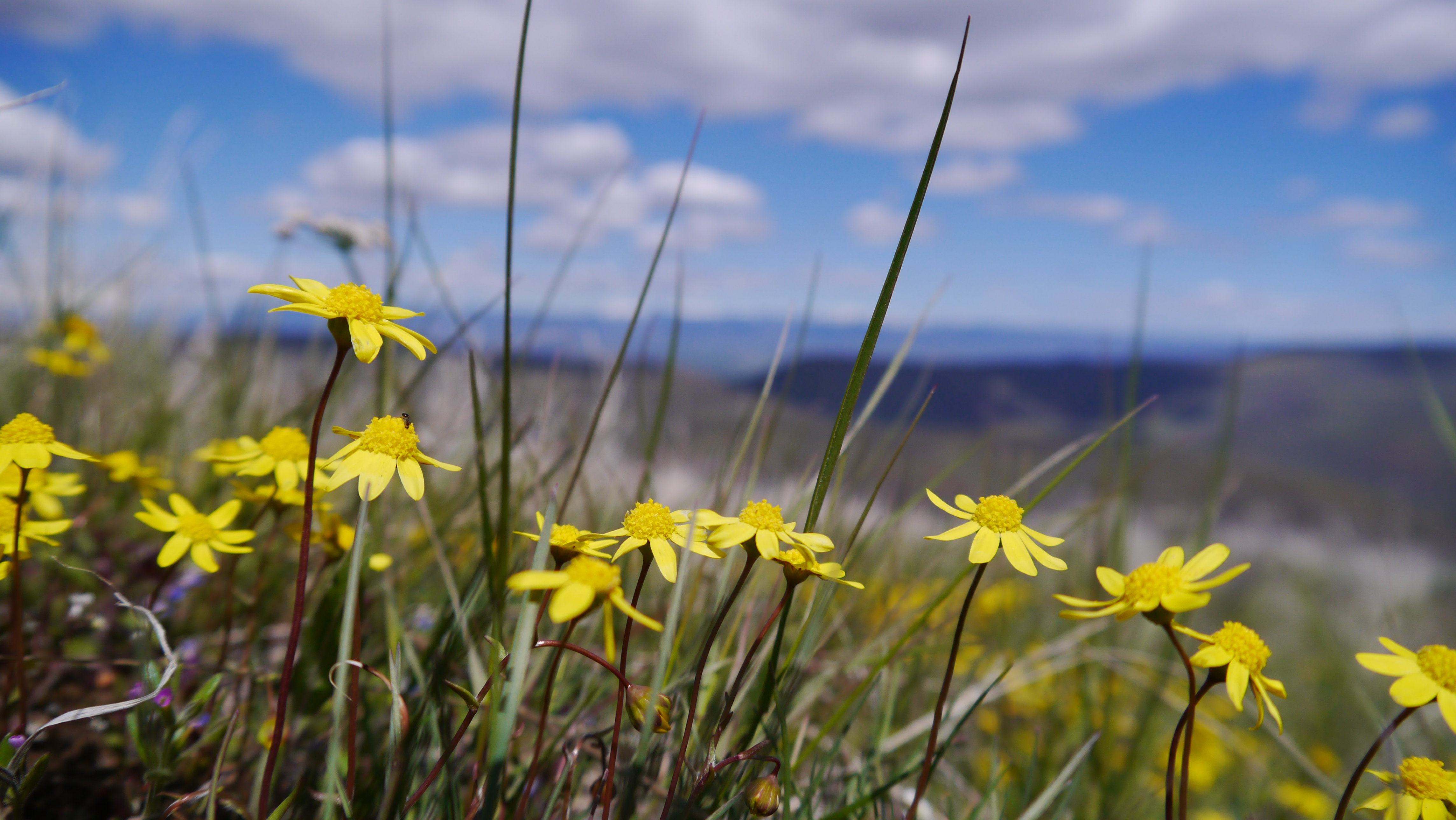 Crocidium multicaule on Umptanum Ridge near Yakima River, Kittitas County Washington